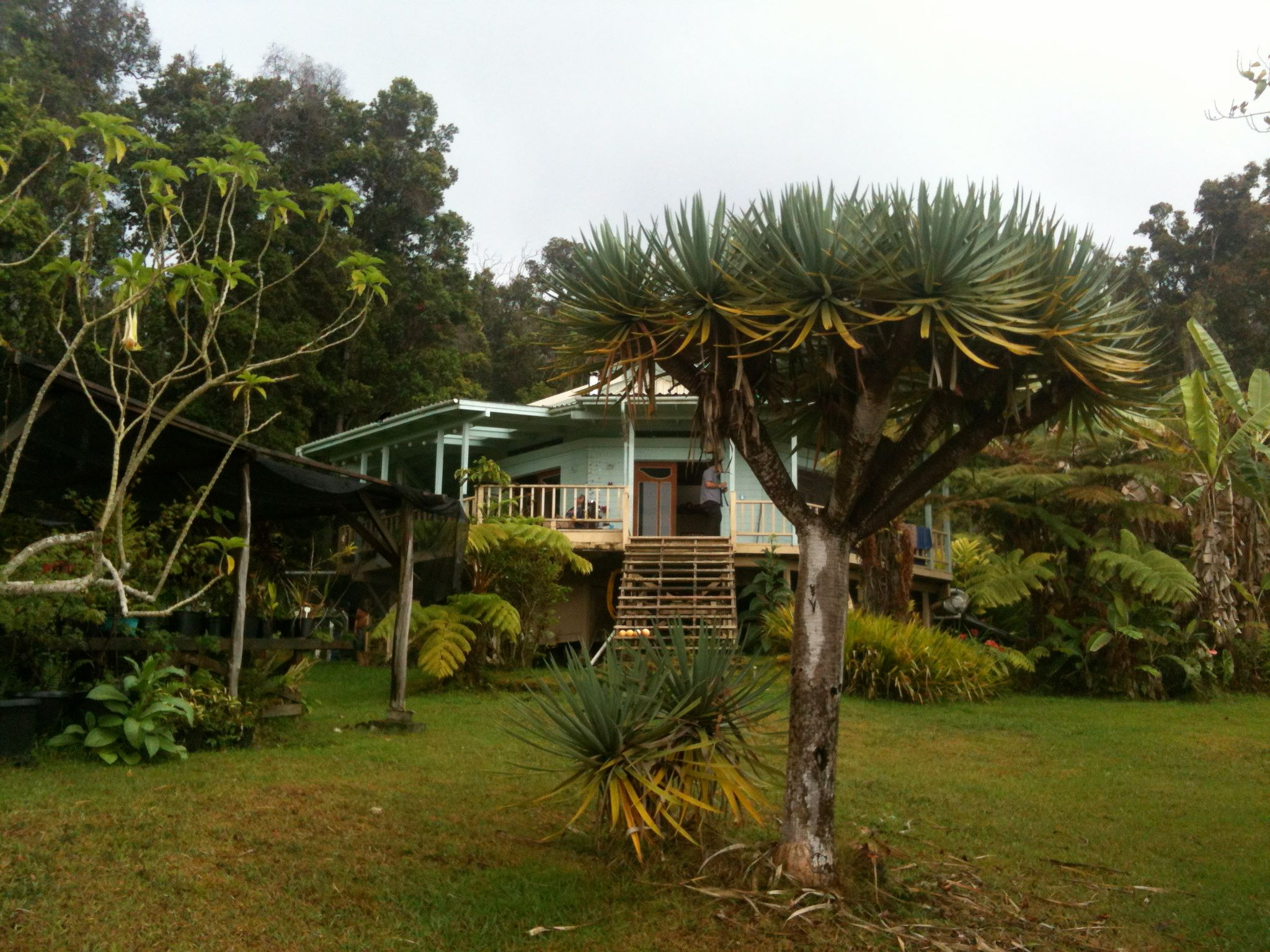 Botanical Dimensions is a nonprofit ethnobotanical preserve on the Big Island of Hawaii founded by Kathleen Harrison and Terence McKenna in 1985.